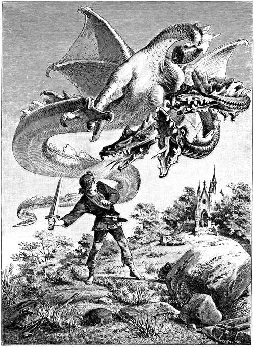 illustration of the Brothers Grimm fairy tale "The Two Brothers"